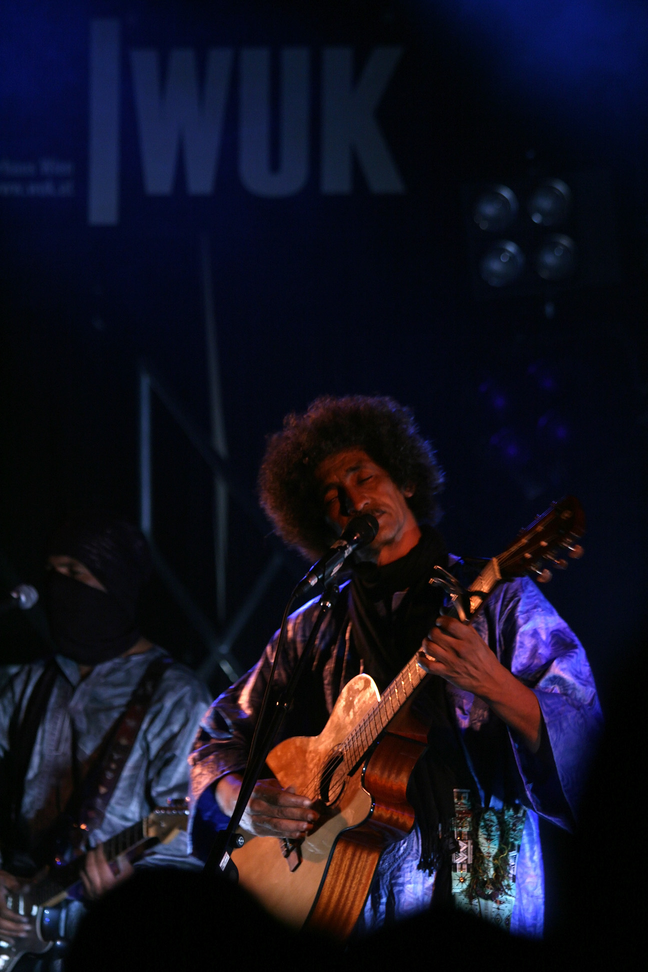 Tinariwen - concert at the cultural center WUK in Vienna.